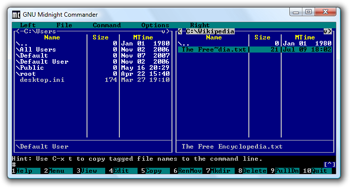 Screenshot of GNU Midnight Commander 4.1.36 running on Windows Vista.